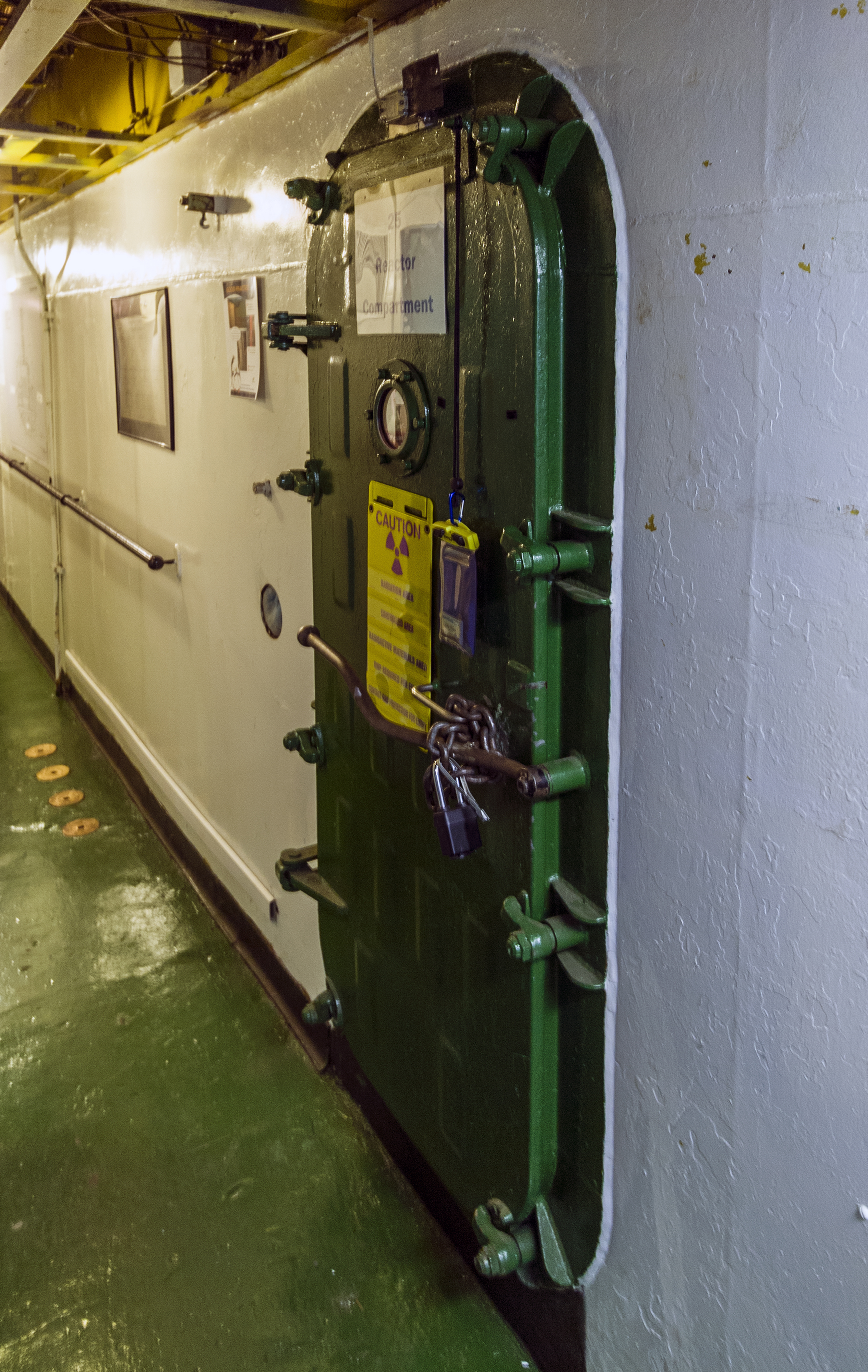 Reactor compartment door, NS Savannah, Baltimore, Maryland, USA